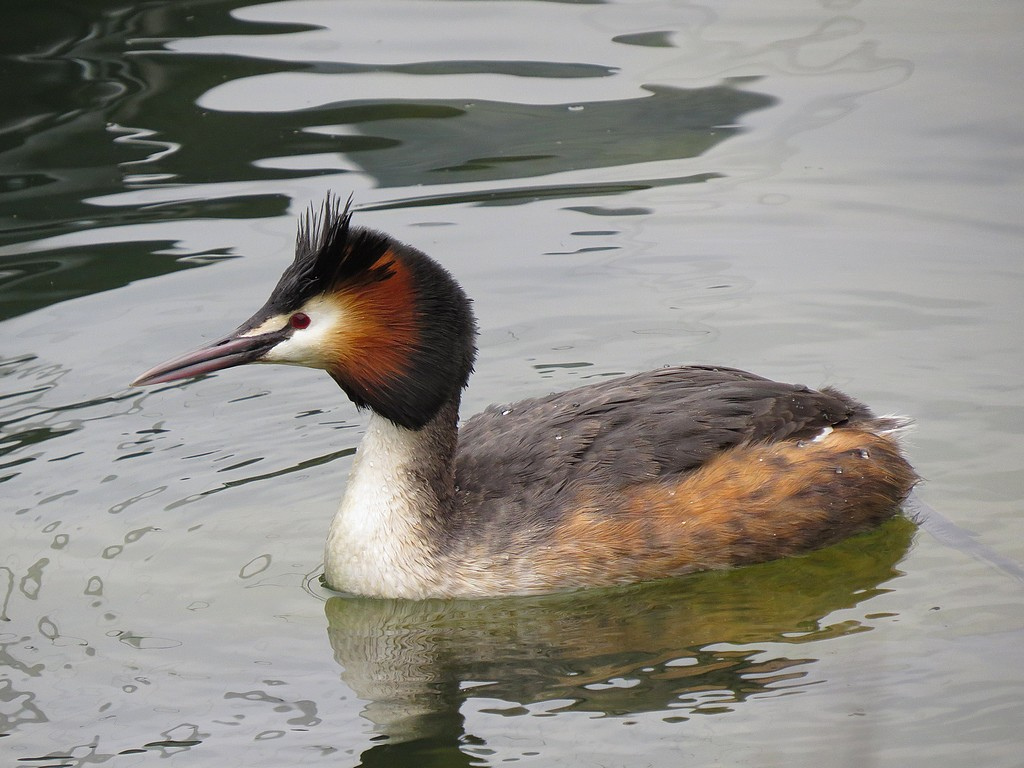 canon power shot Sx50 Hs